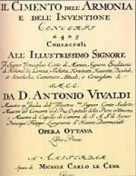 Title page of Antonio Vivaldi's Cimento dell'Armonia e dell'Invenzione (Amsterdam, Le-Cène, ca.1727)